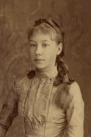 Ekaterina af Enehielm